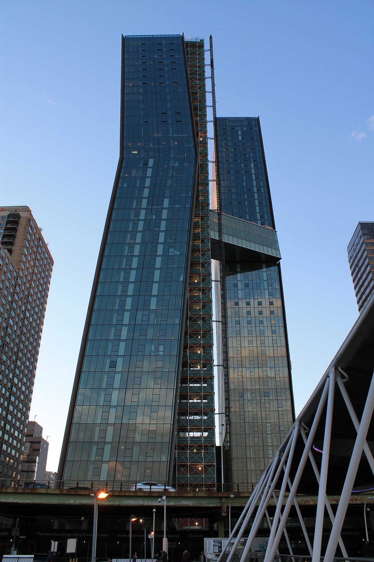 The American Copper Buildings from the East 34th Street Ferry Landing.